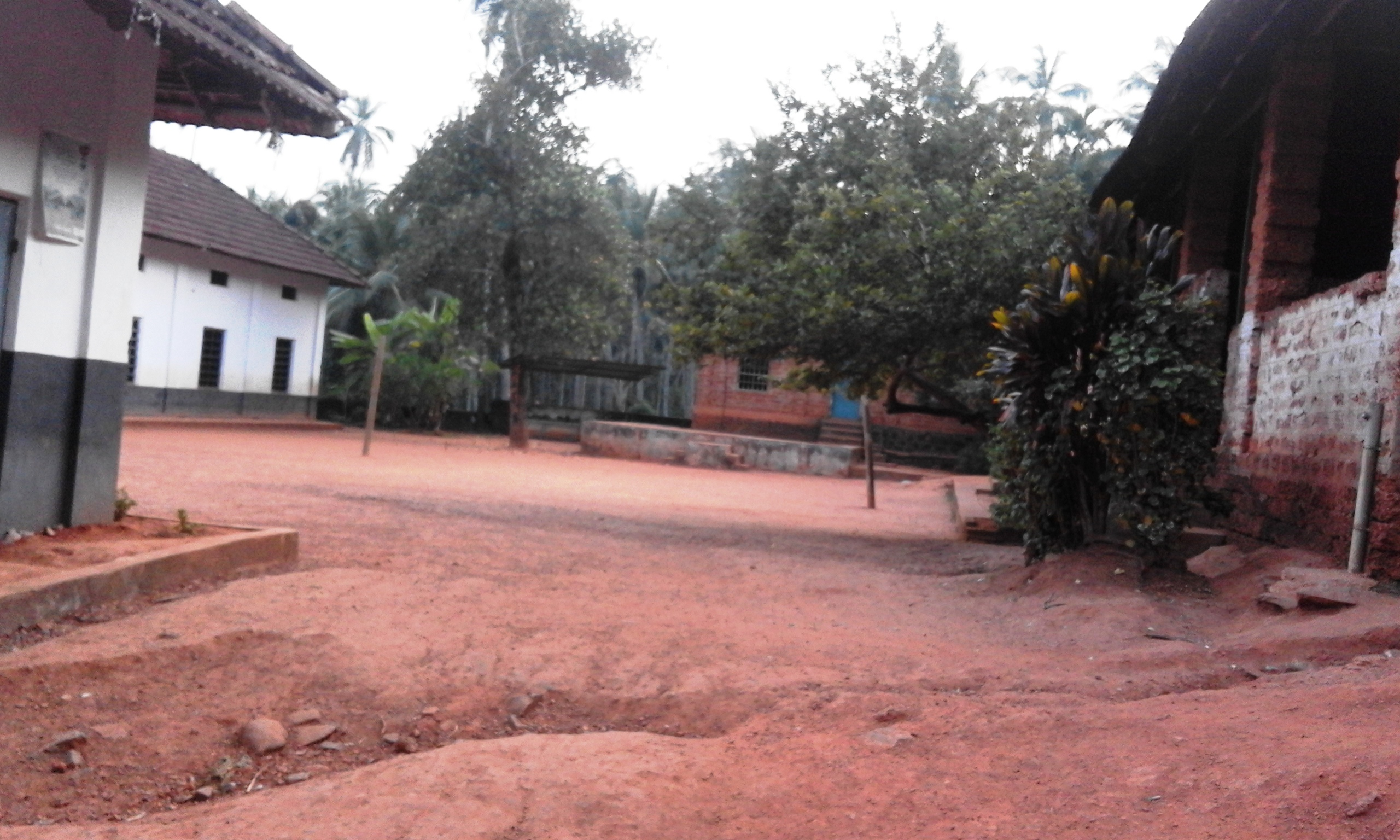 Balussery, Kozhikode District, Kerala Province, India.